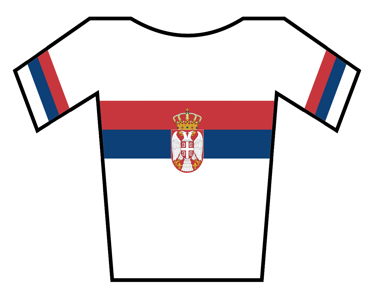 National champion cycling jersey of Serbia